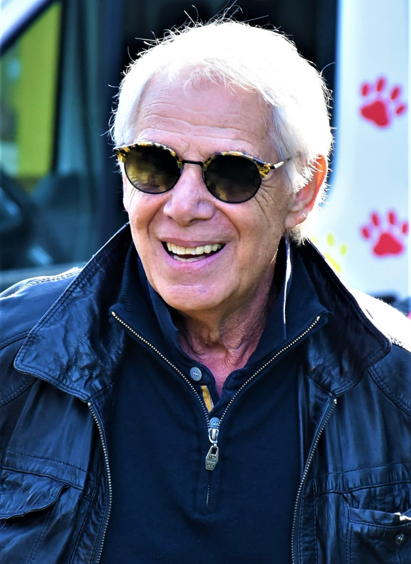 Josef Laufer, Czech vocalist